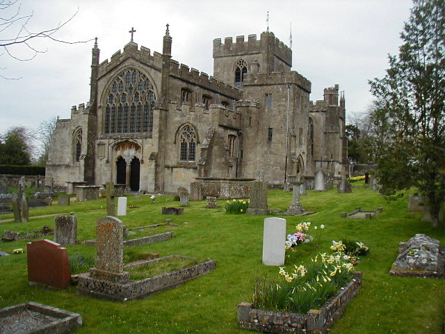 Edington Church. Not only a fine church but also a place to visit for fine music concerts